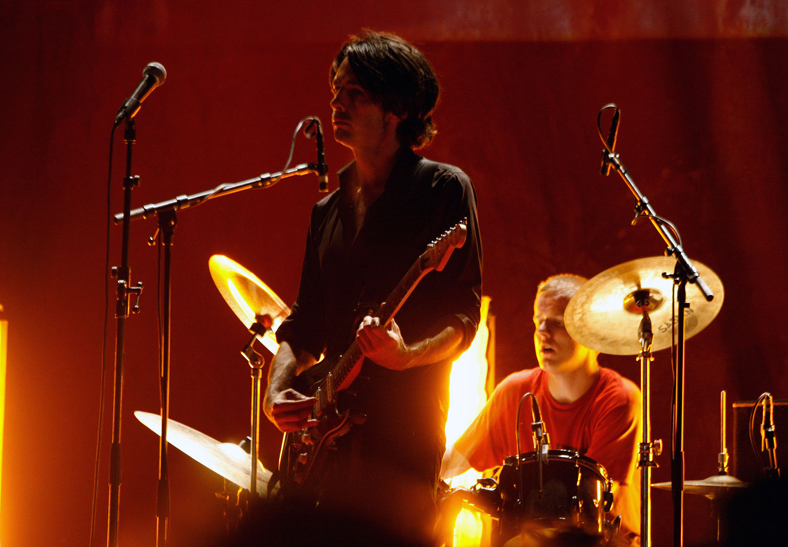 Wim Vandekeybus/Ultima Vez and Mauro Pawlowski presenting What's the Prediction? at the opening of the ImPulsTanz Vienna International Dance Festival (Museumsquartier, Vienna).